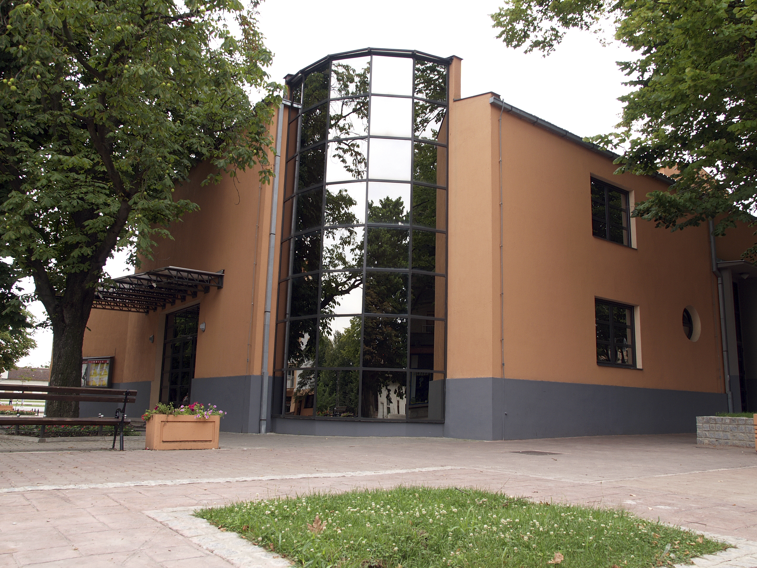 Cultural centre of Indjija